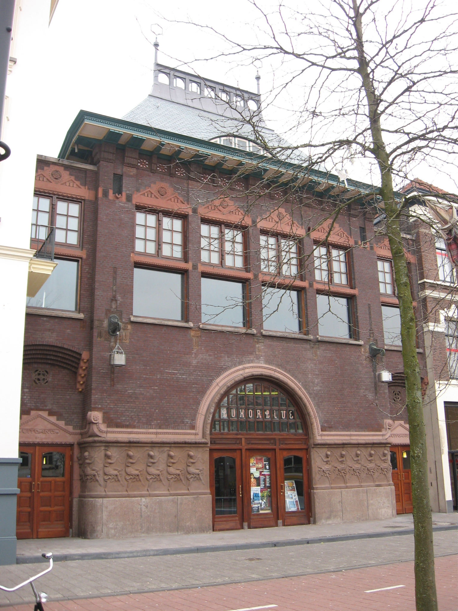 Arnhem - Luxor